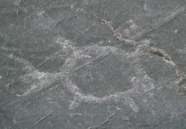 Category:Images of Minnesota - should be in Commons Category:Registered Historic Places in Minnesota